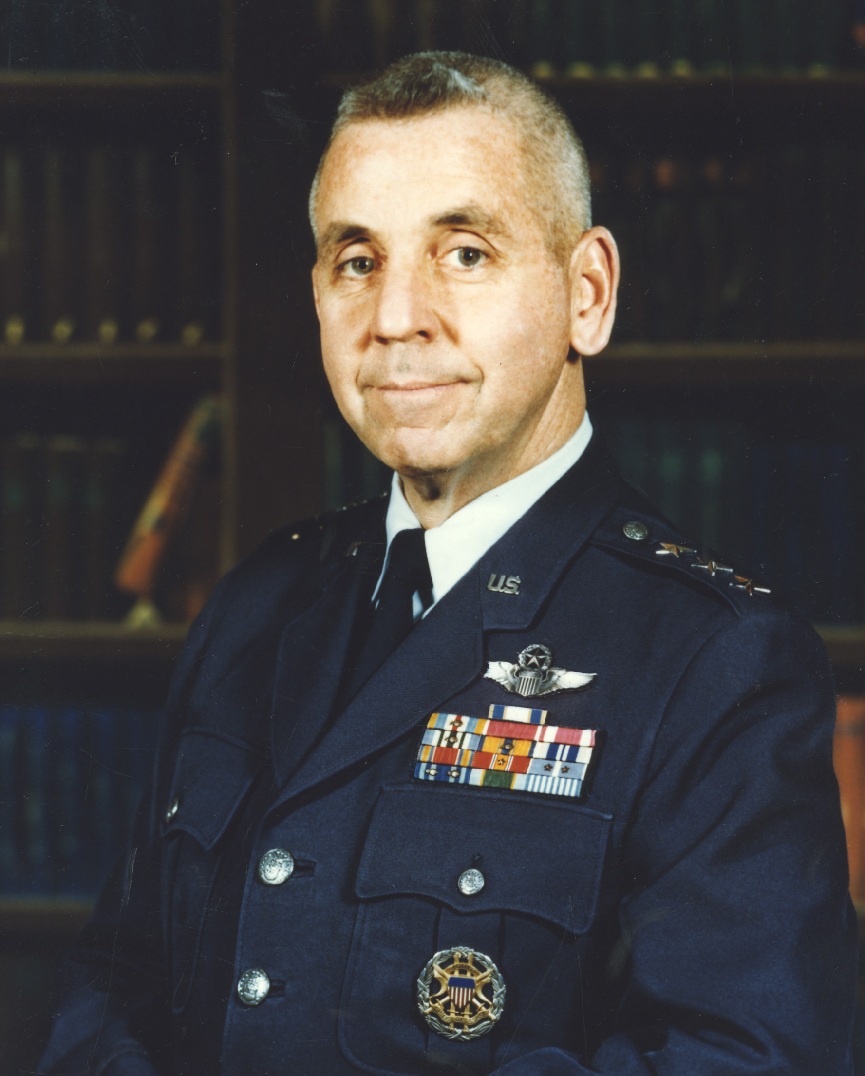 Lieutenant Lincoln D. Faurer.